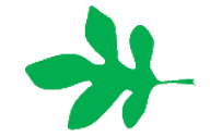 Leaf morphology lobed (extraction of Leaf_morphology_no_title.png)